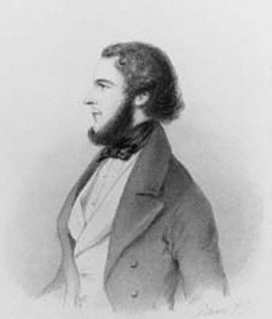 Portrait of Benjamin Lumley, His Majesty's Theatre manager, by Count d'Orsay. From Lumley's memoirs (1864).